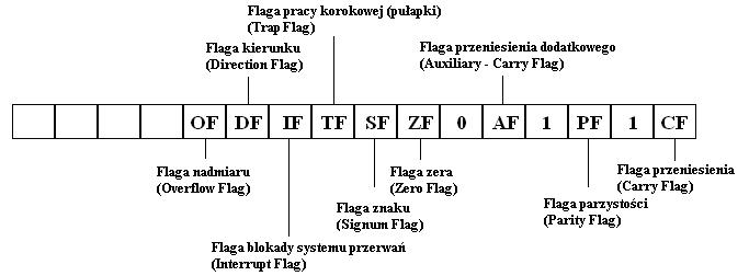 8086 flag register